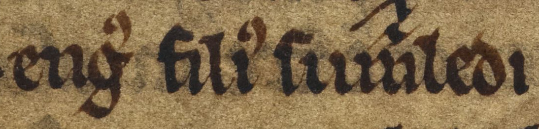 An excerpt from folio 41r of British Library MS Cotton Julius A VII (the Chronicle of Mann). The excerpt reads in Latin "Engus filius Sumerledi", and refers to Aonghus mac Somhairle (died 1210).